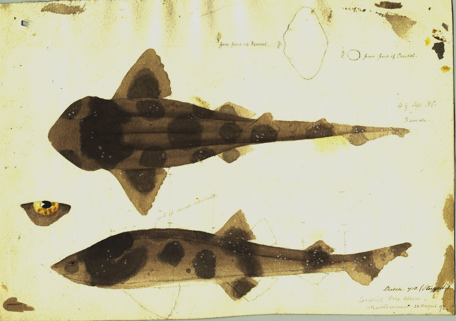 A Draughtboard Shark, Cephaloscyllium laticeps, illustrated by Arthur Bartholomew - collected in 1892 from Port Albert, Victoria.